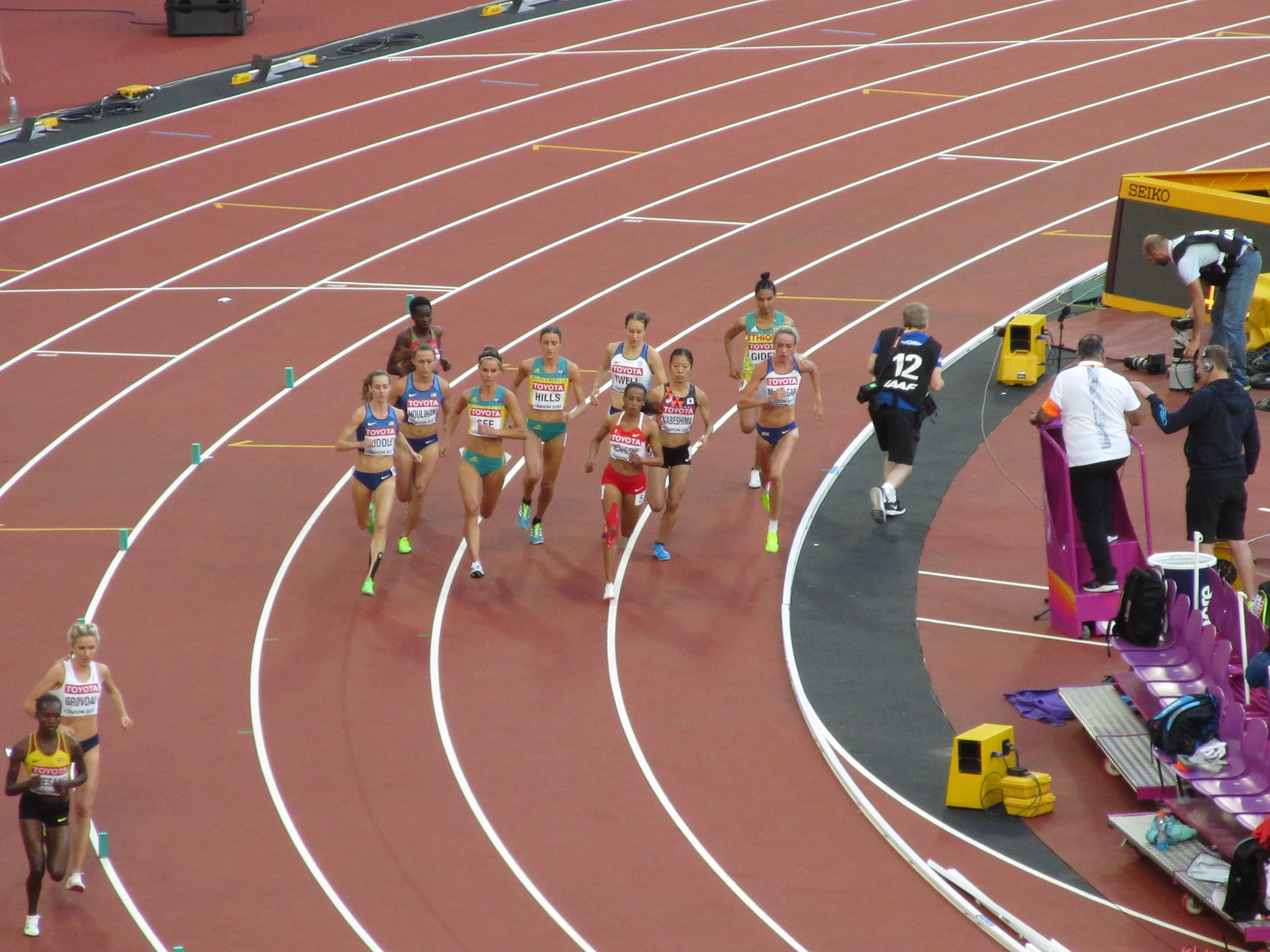 Women's 5000m heats